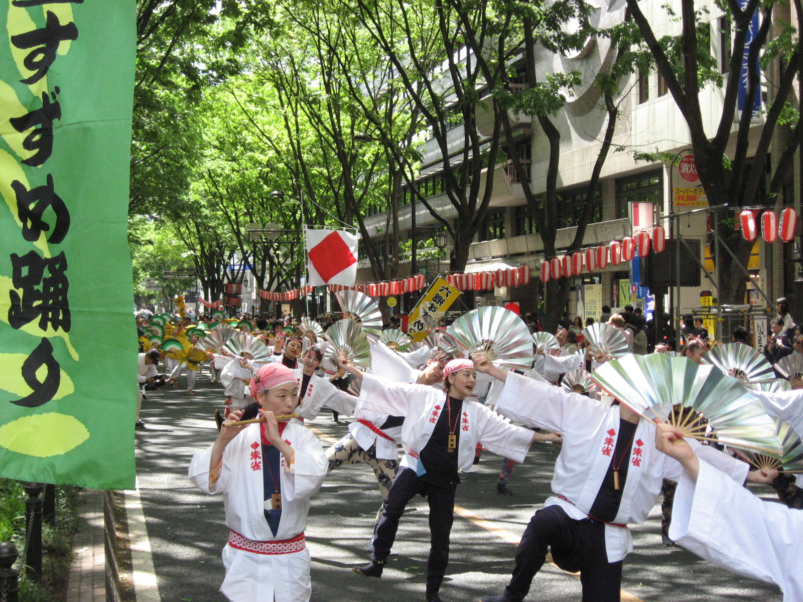 A troupe of suzume odori contestants on Jozenji street, at the Sendai Aoba matsuri festival. A flutist to the left with a green banner noting the title of the festival.